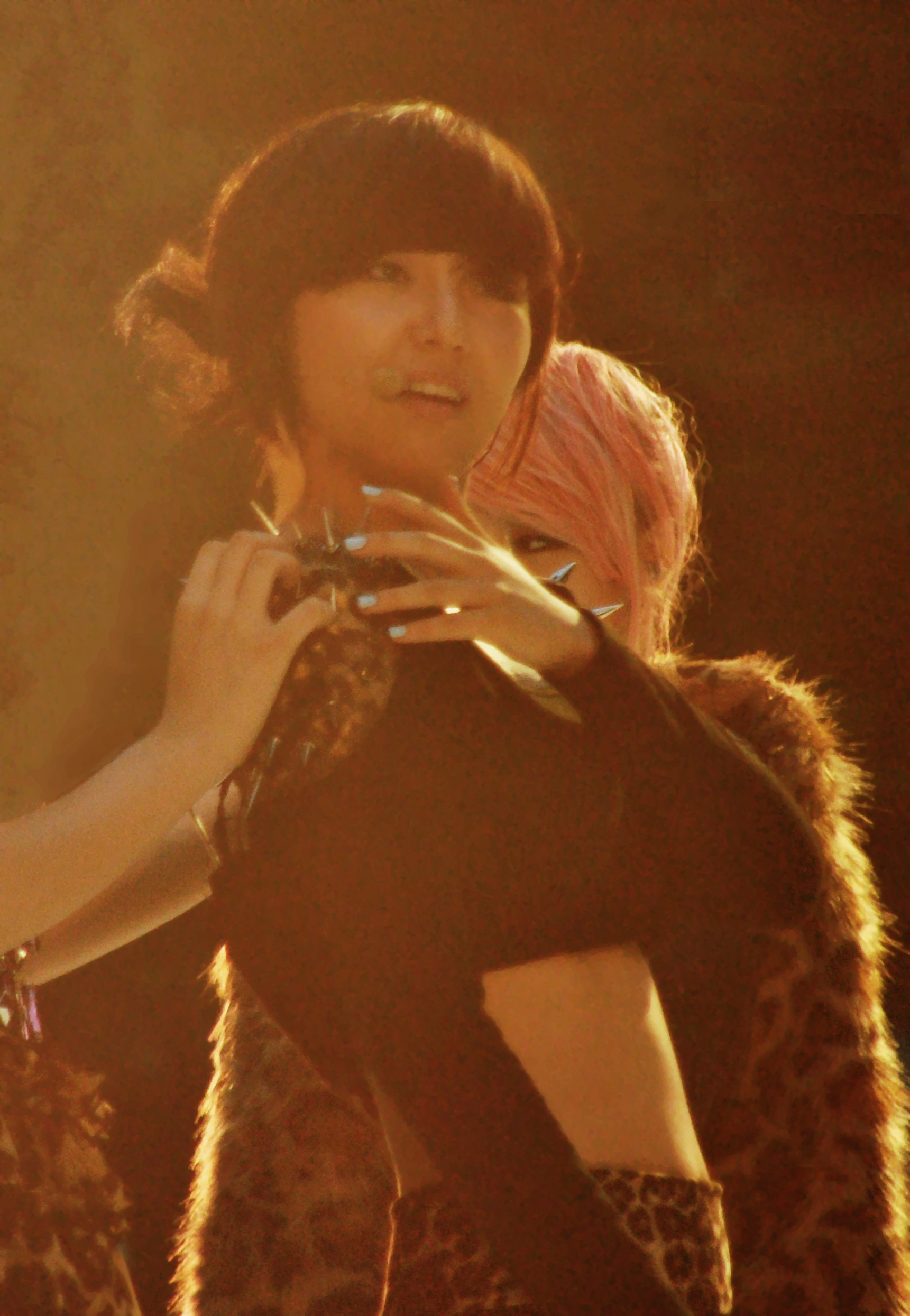 A cropped picture of Miss A member, Min, at the Mnet 20s Choice Award.